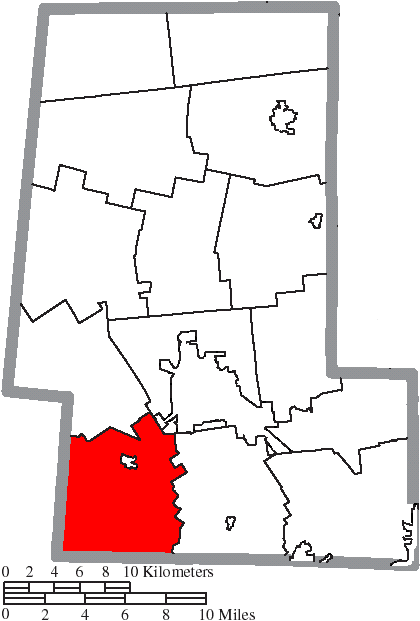 Map of the municipal and township boundaries of Union County, Ohio, United States, as of the 2000 census, with the location of Union Township highlighted. Township borders are shown only in unincorporated areas in order to differentiate incorporated and unincorporated areas more clearly.